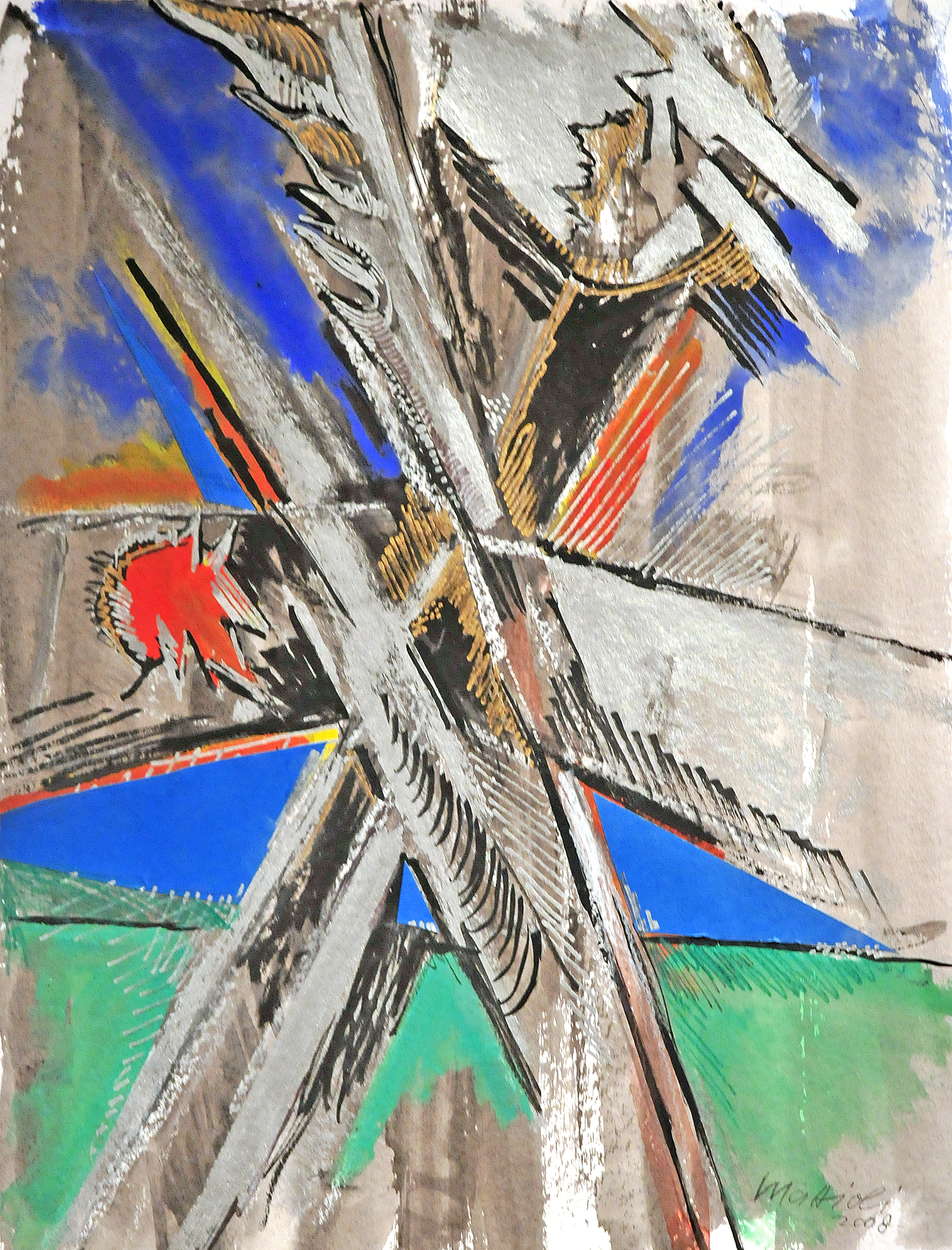 Watercolor "Studie zu der monumentalen Metallplastik Astro lux" by Silvio Mattioli. Silvio Mattioli is a Swiss painter and sculptor of plastic works.